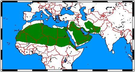 Rüppell's Fox (Vulpes rueppelli) range map, made by me with help of Map depending on the range map at IUCN red list.